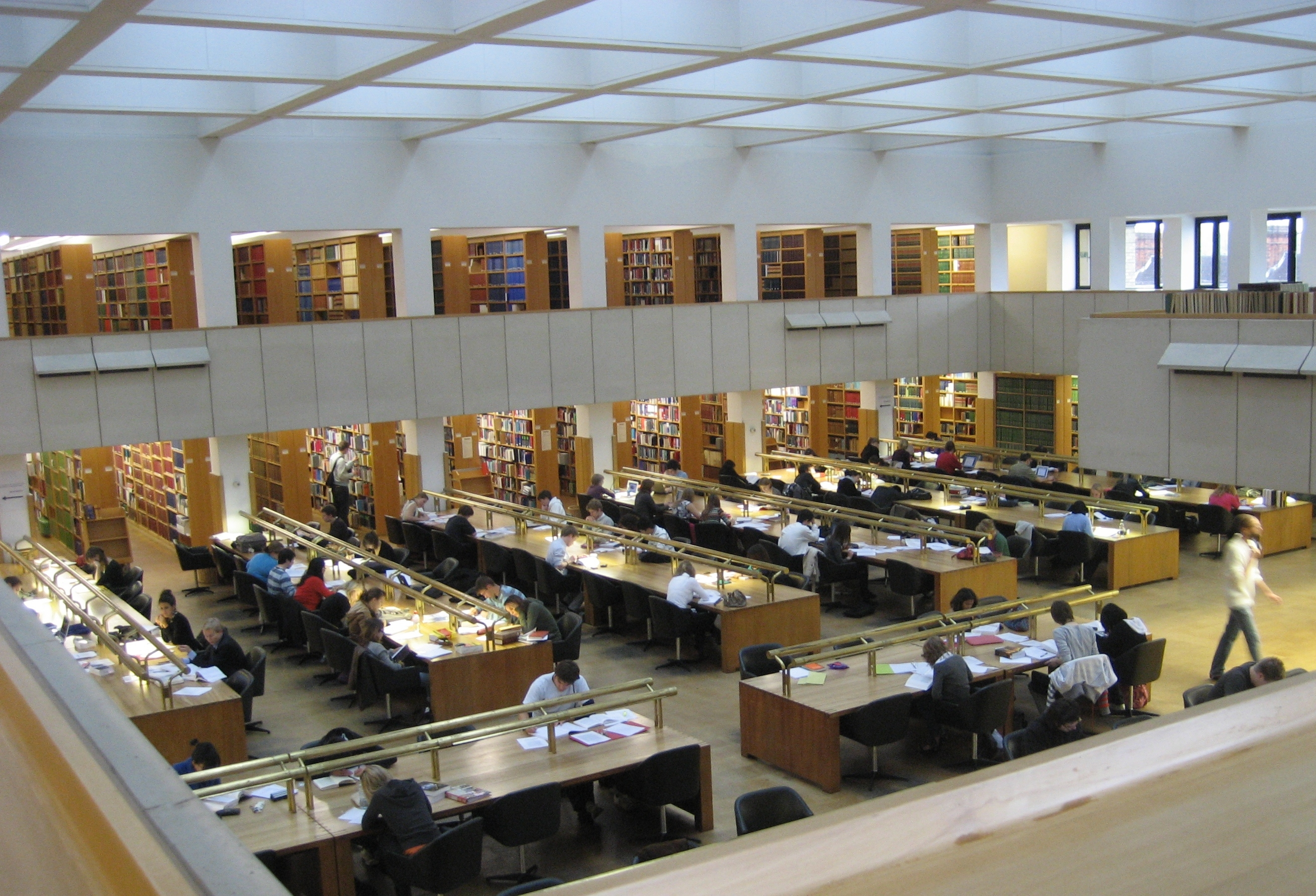 Main Reading Room, Bodleian Law Library, University of Oxford.